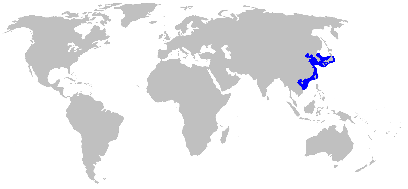 Distribution map for Mustelus griseus